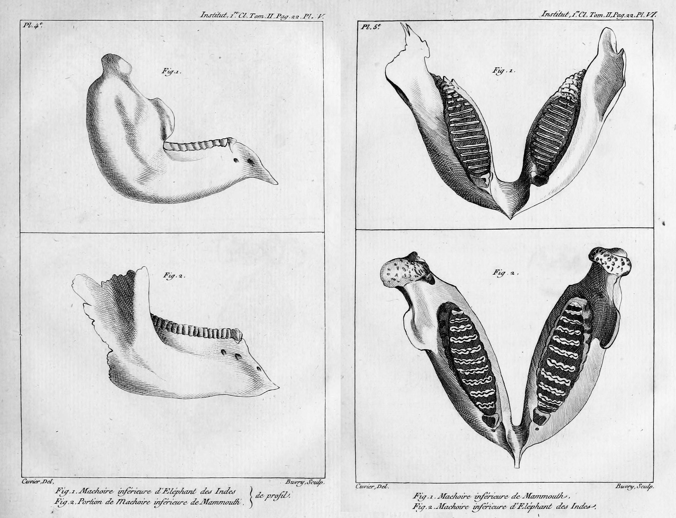 Figure of the jaw of an Indian elephant and the fossil Jaw of a mammoth from Cuvier's 1798–99 paper on living and fossil elephants